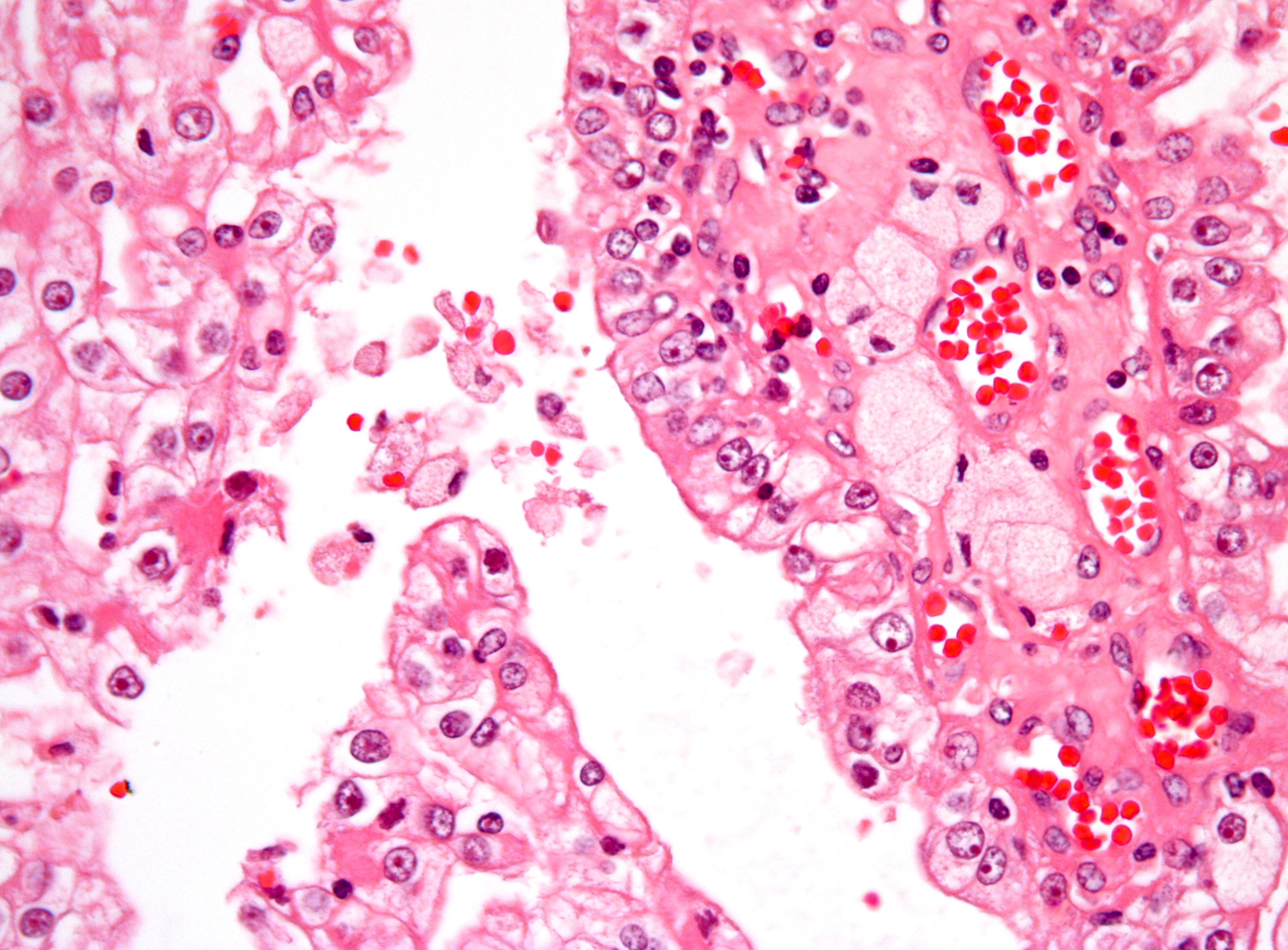 High magnification micrograph of type 1 papillary renal cell carcinoma (RCC). H&E stain. Characteristics of papillary RCC: Highly vascular. Interstitial foam cells. Papillae (with fibrovascular cores). Type 1 papillary RCC has: A single layer of cells on the basement membrane and usually has low grade nuclear features, i.e. a low Fuhrman grade. Type 2 papillary RCC has: Pseudostratification of cells and usually has high grade nuclear features, i.e. a high Fuhrman grade. Related images Intermed. mag. High mag. Very high mag.